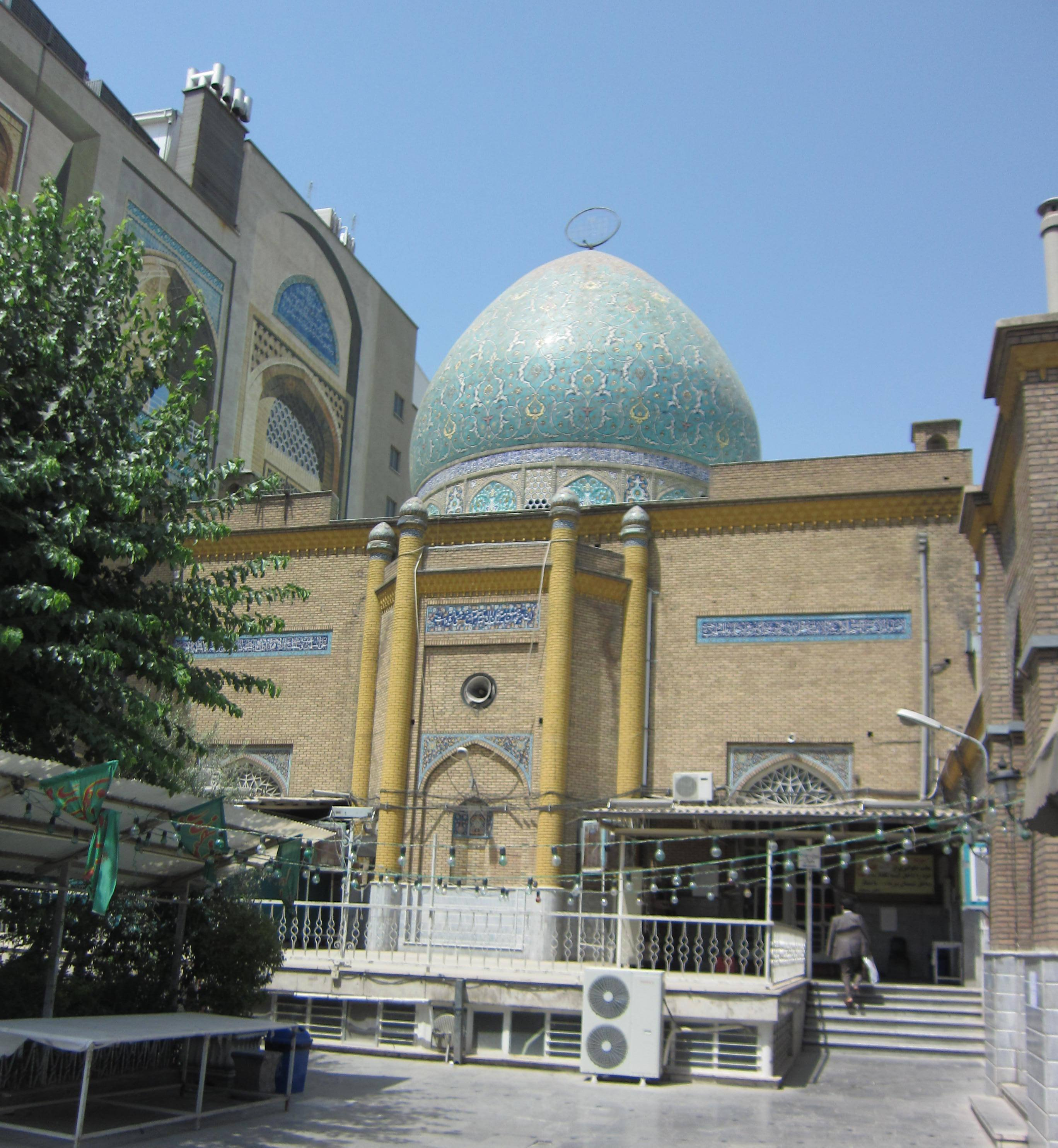 Fakhr al-Dawla mosque, Tehran